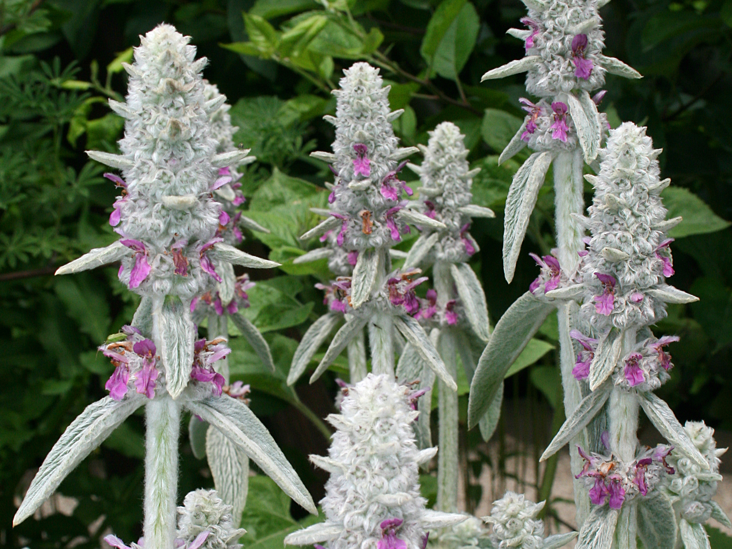 Stachys byzantina - Woolly hedgenettle or Lamb's ear